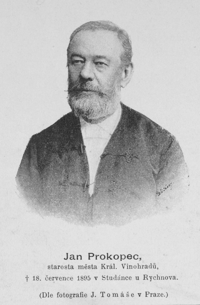 Portrait of Jan Prokopec (1824-1895), Czech entrepreneur and later mayor of Vinohrady (now part of Prague).